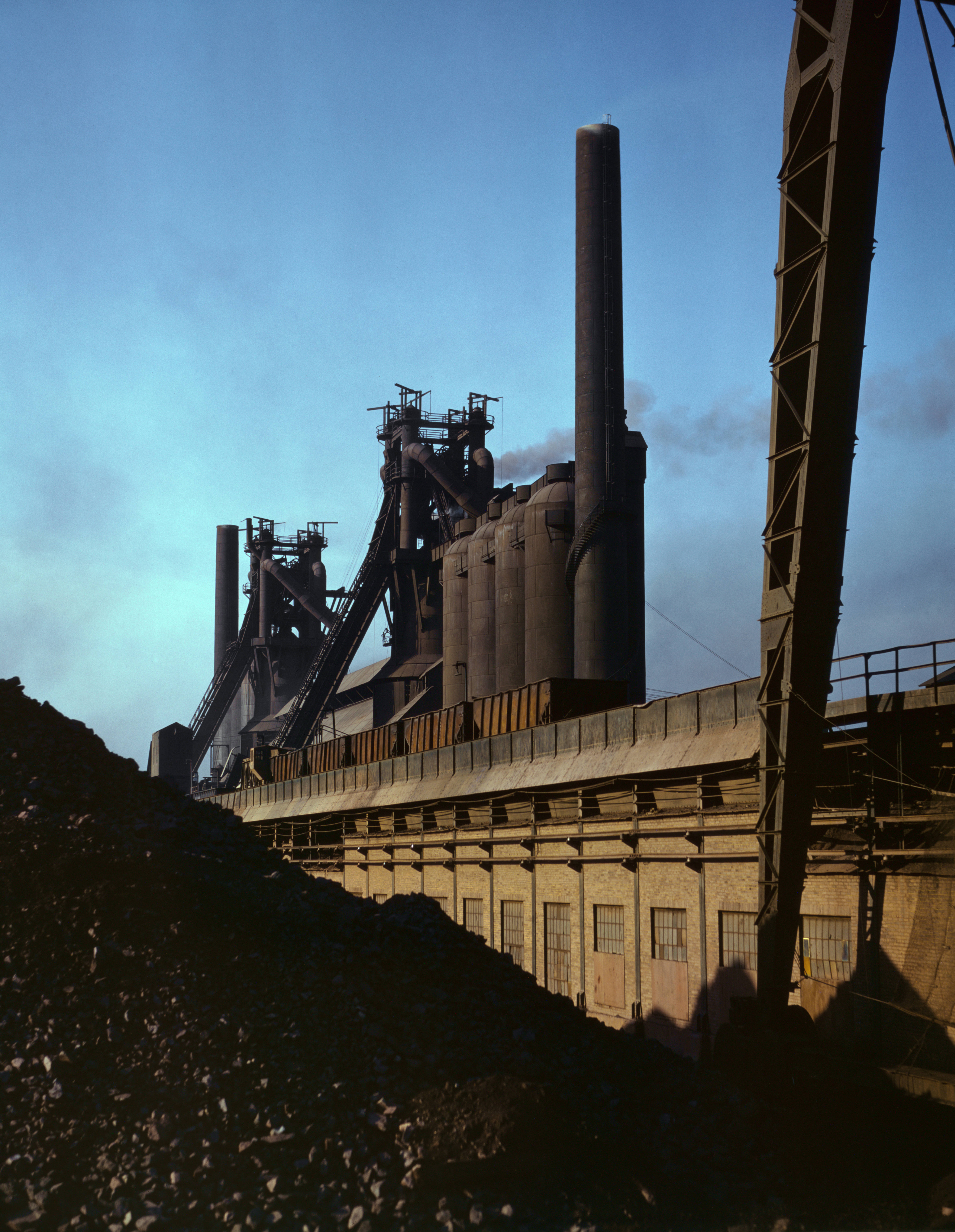 Blast furnaces and iron ore at the Carnegie-Illinois Steel Corporation mills, Etna, Pennsylvania.